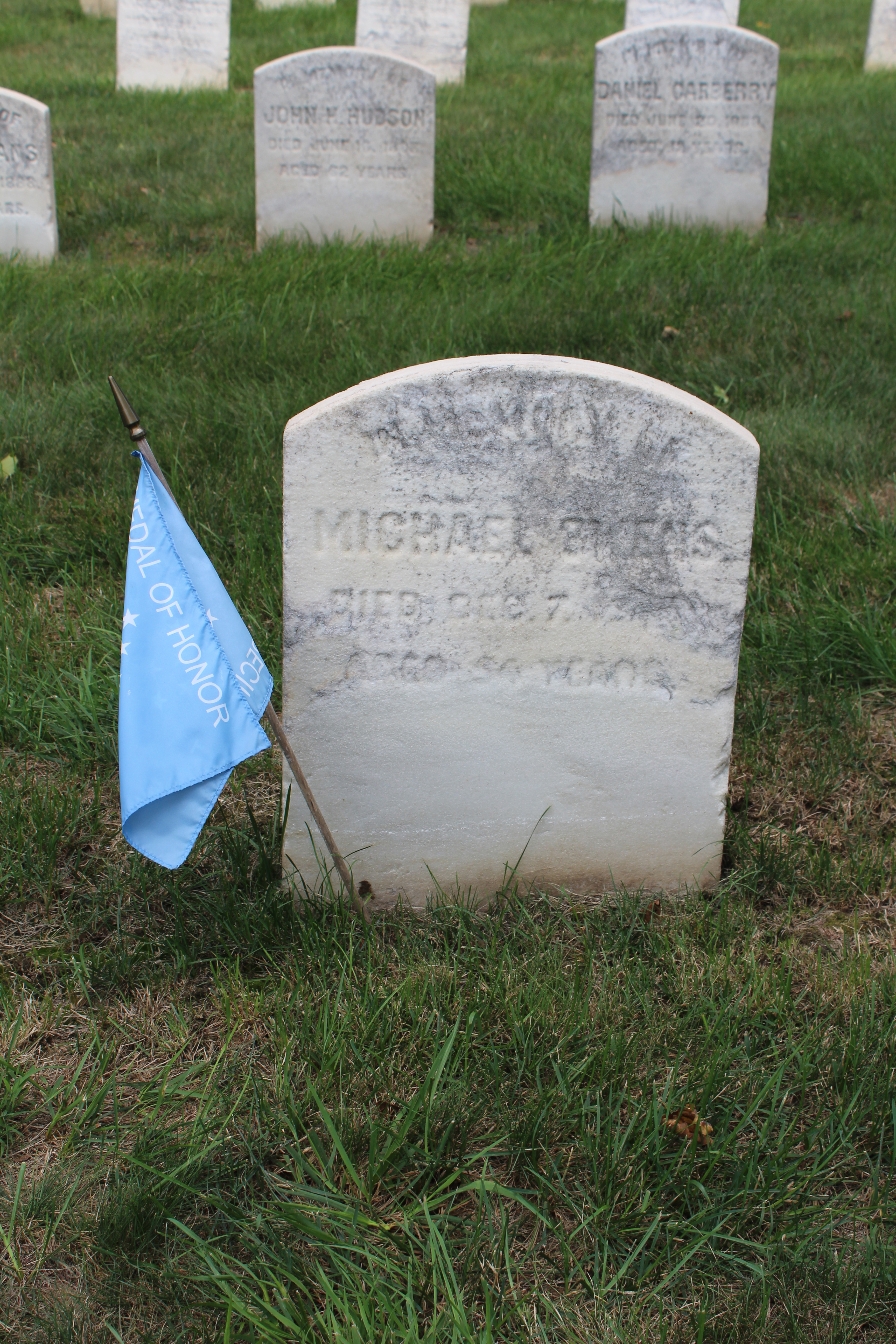 Michael Owens headstone in Mount Moriah Cemetery Naval Plot in Yeadon, Pennsylvania. Photo taken August 2019.